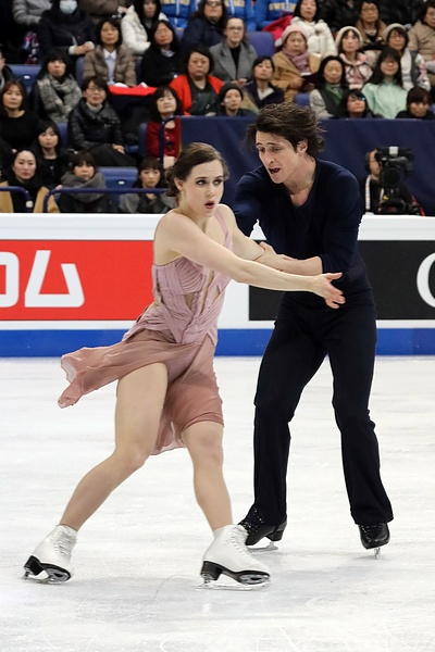 Tessa Virtue and Scott Moir at the 2017 World Championships